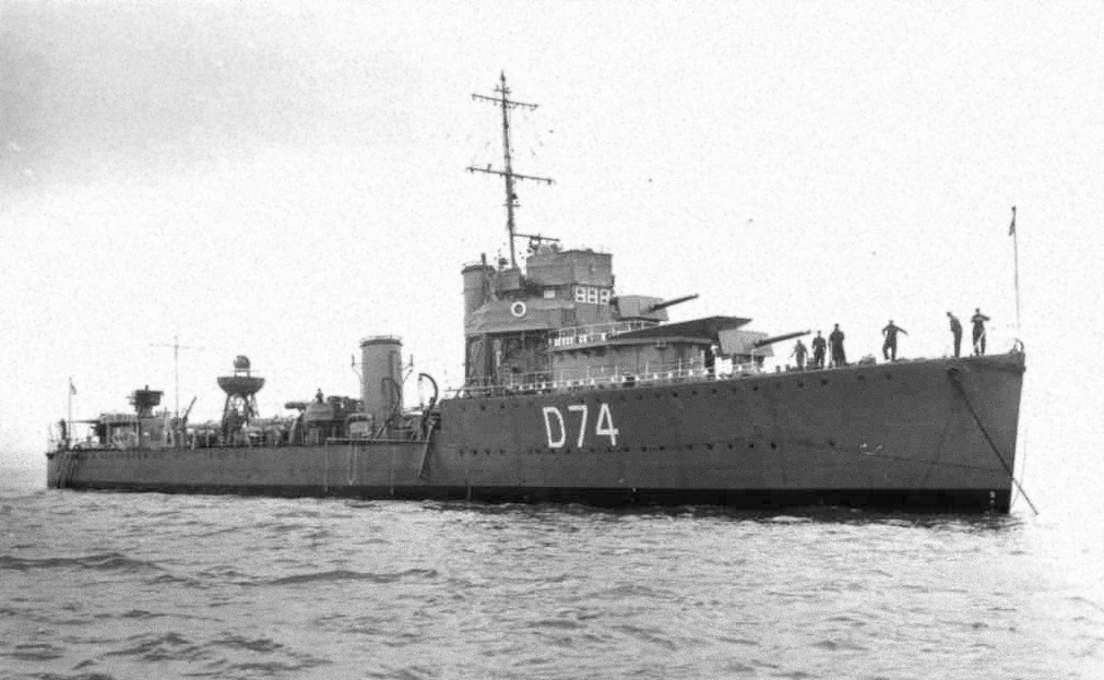 HMS Wanderer (D74)